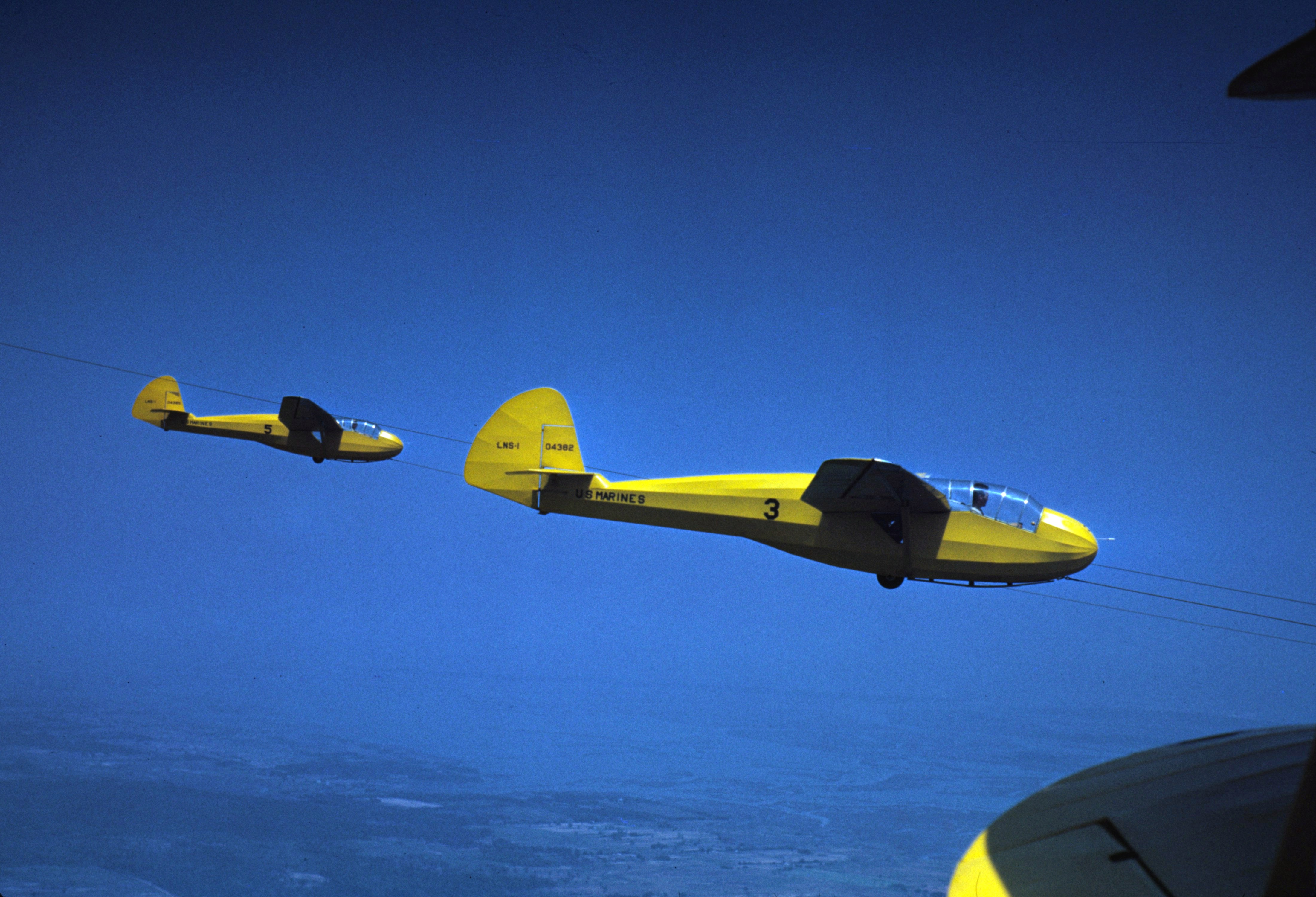 U.S. Marine Corps Schweizer LNS-1 (Model SGS 8-2) gliders being towed over Parris Island, South Carolina (USA), in May 1942.